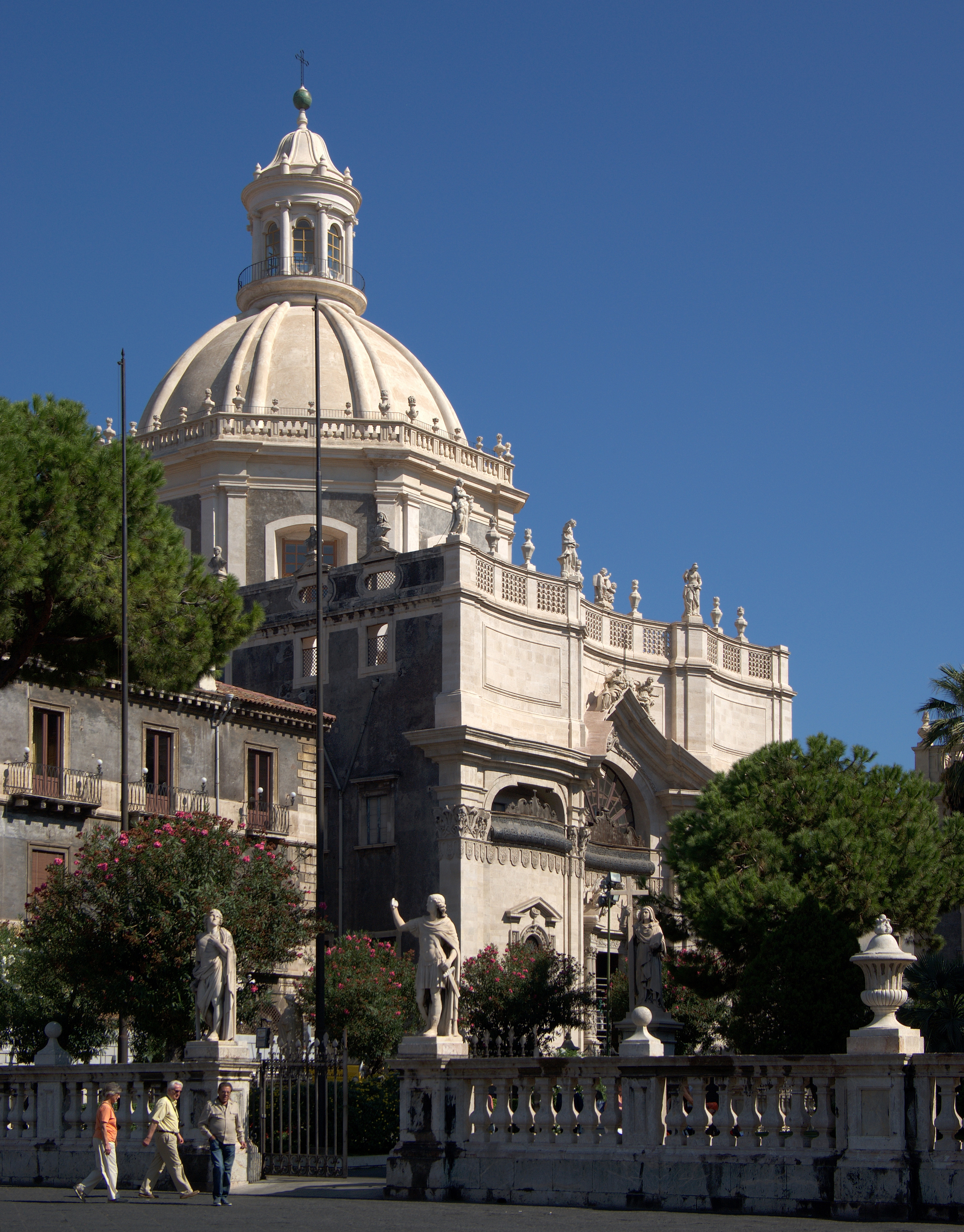 Italy, Sicily, Catanaia, Badia di Sant' Agata